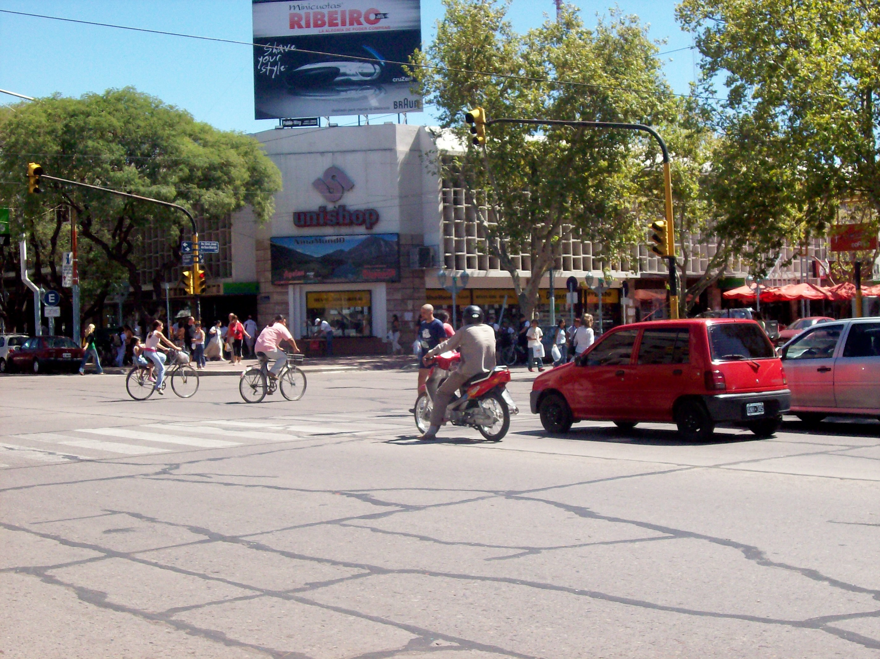 City of San Rafael in Mendoza Province, Argentina. Intersection of the main avenues (General San Martín, El Liberator, Bartolomé Mitre and Hipolito Yrigoyen), also called "km 0" in the centre of city.